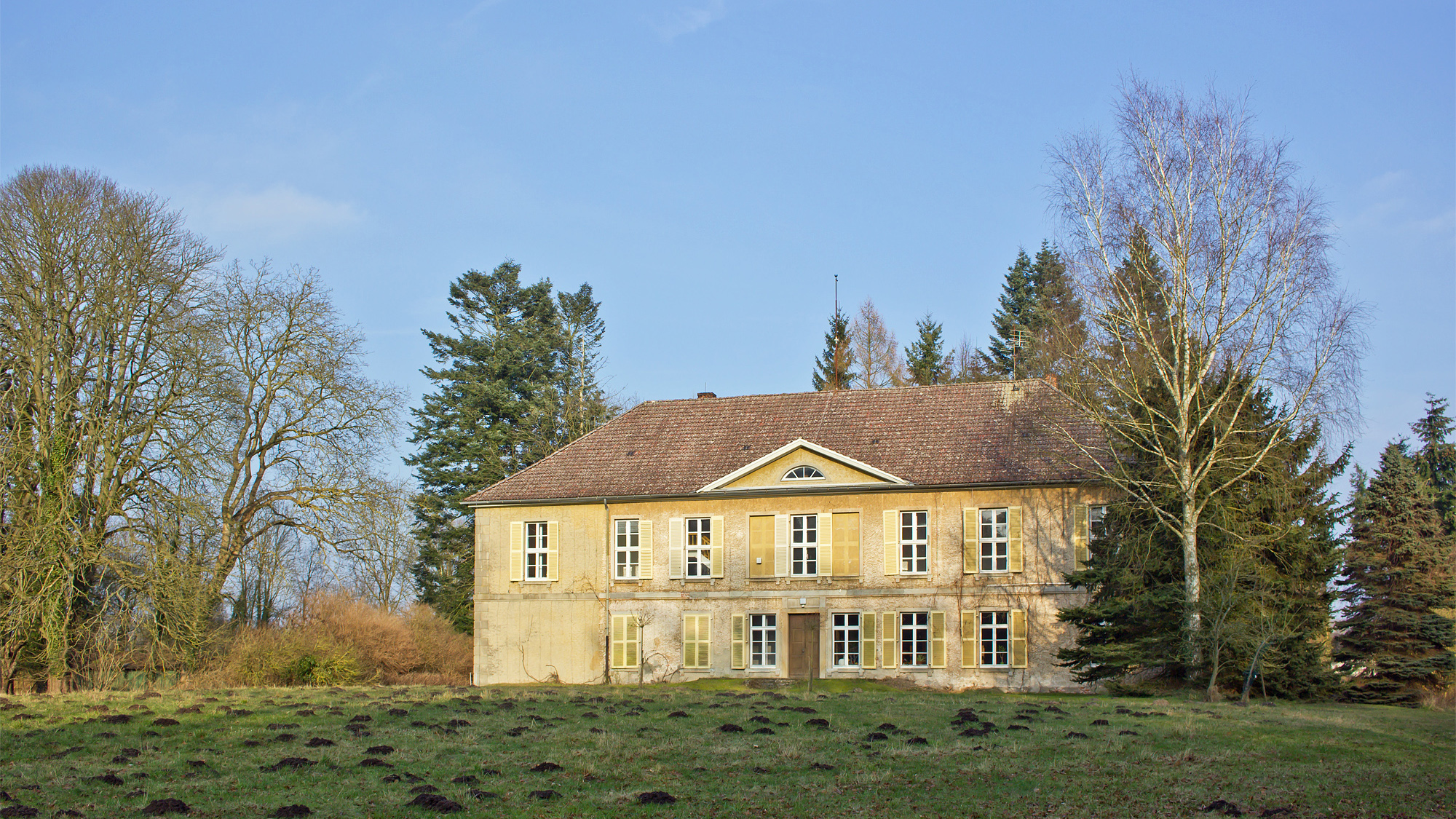 Cultural heritage monument "Manor house with park" in the village Breese im Bruche (district Lüchow-Dannenberg, northern Germany). Remains of a former castle from the 18th century.